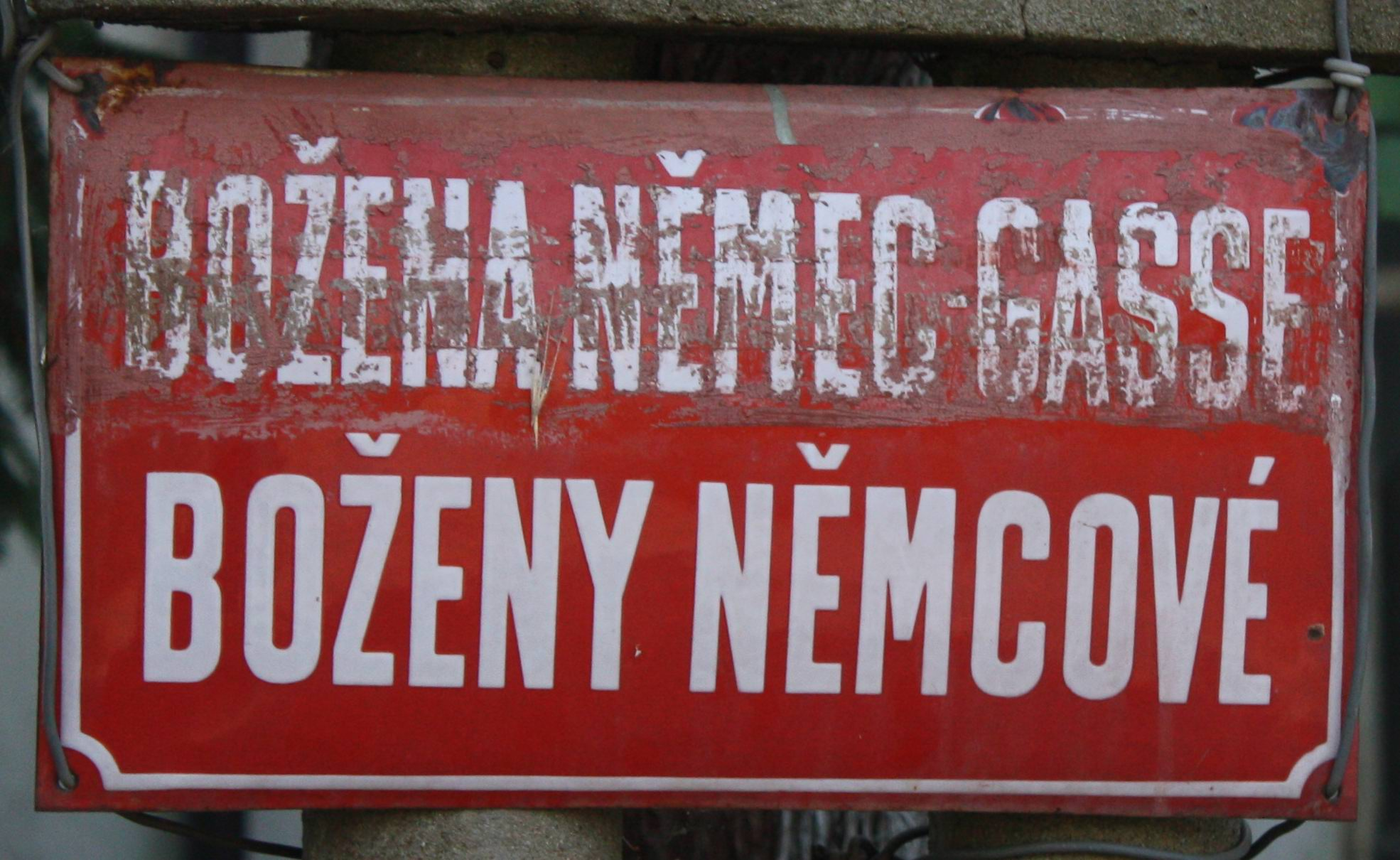 Bilingual street sign (probably from the time of the Protectorate of Bohemia and Moravia), Řevnice, Central Bohemia, Czechia.